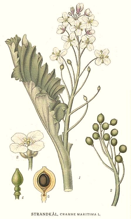 Original Description Strandkål, Crambe maritima L.